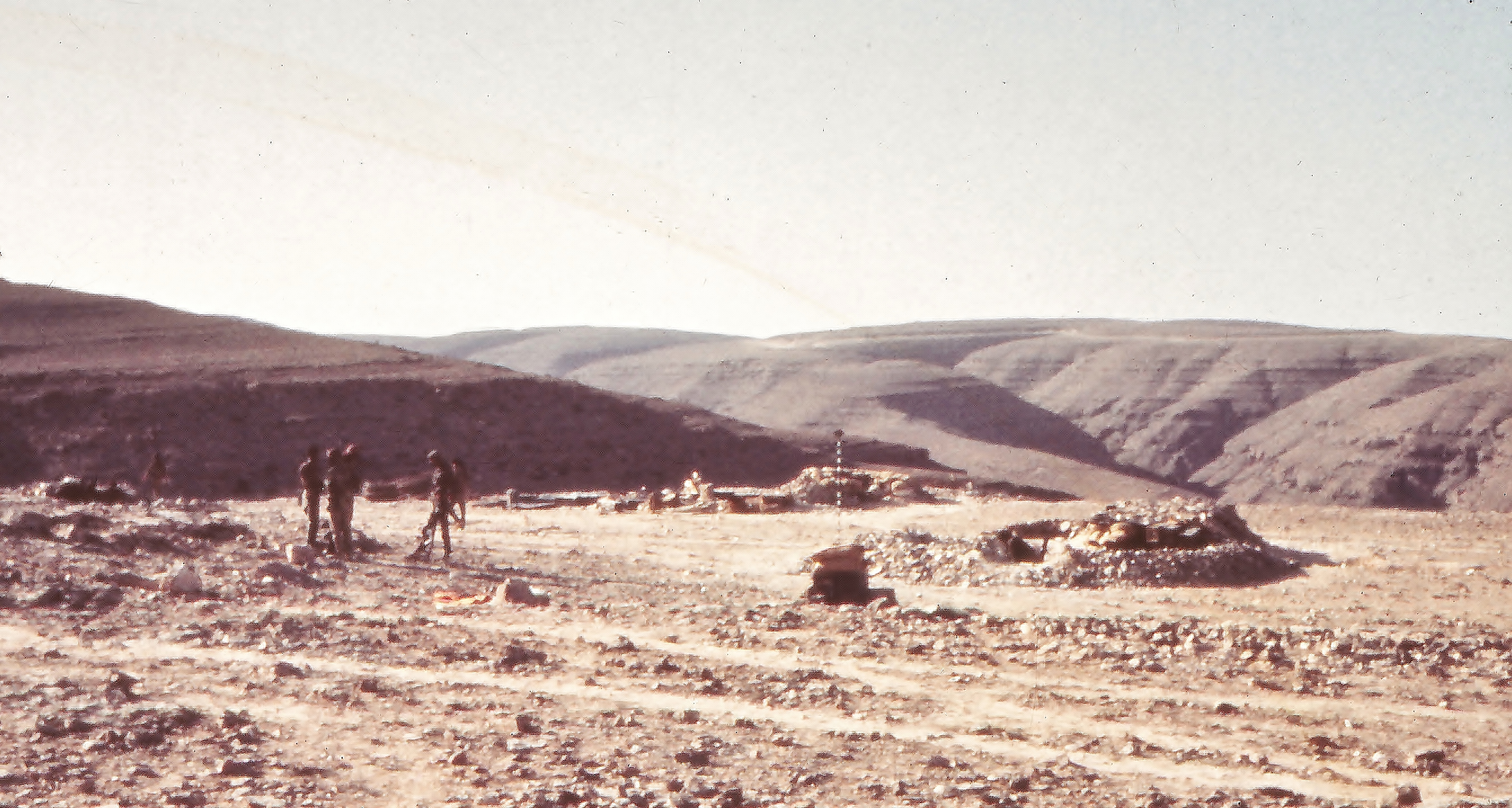 The Dhofar War. Simba was a battalion position on the Omani - PDRY border overlooking the sea and not far from the small town of Hauf in PDRY! This is Blue 2 looking towards the airstrip. one of several widely dispersed platoon-size locations dominating the Wadi Sarfait.